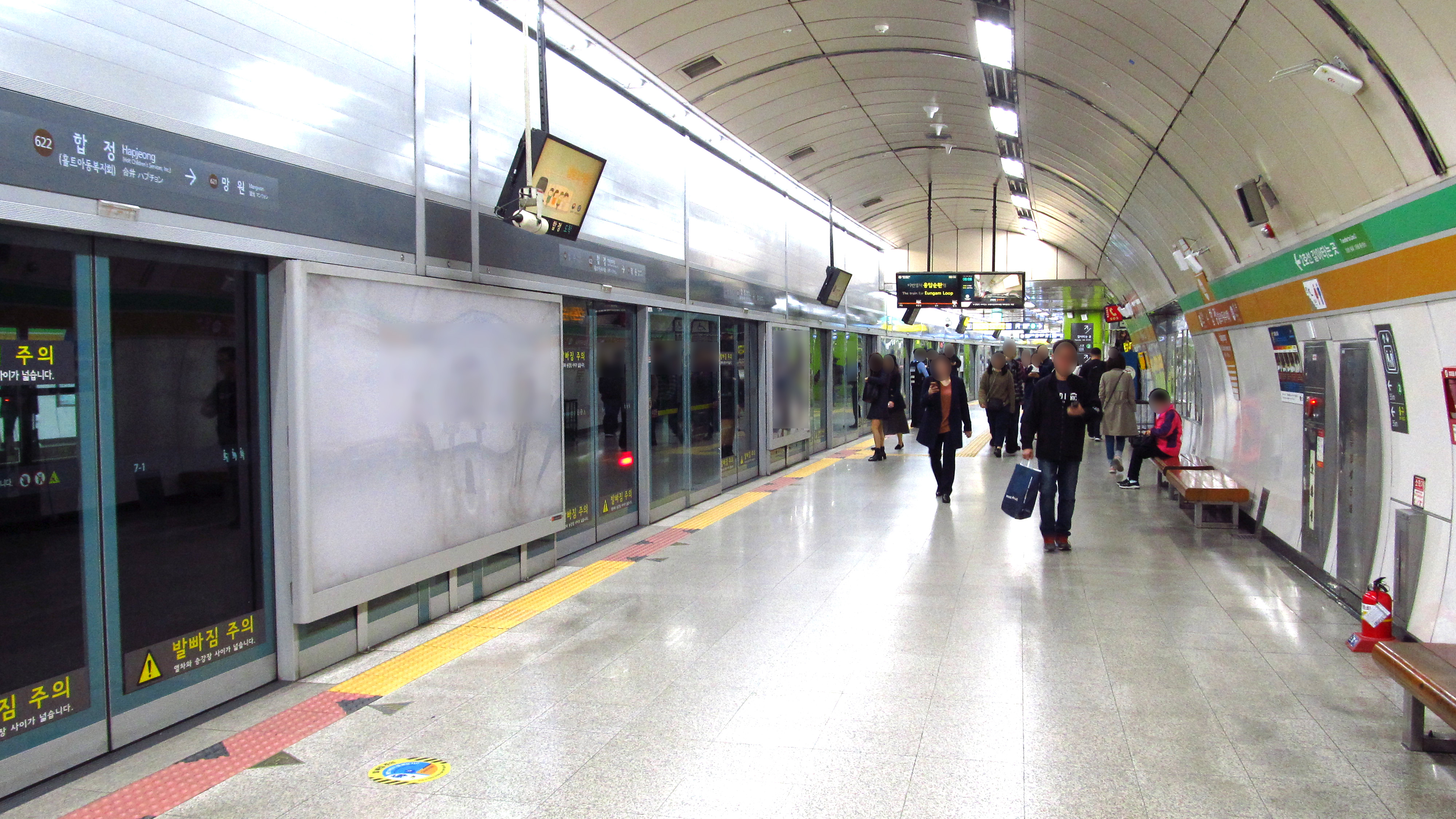 The platform at Hapjeong Station on Seoul Subway Line 6 in Mapo-gu, Seoul, Republic of Korea(South Korea)